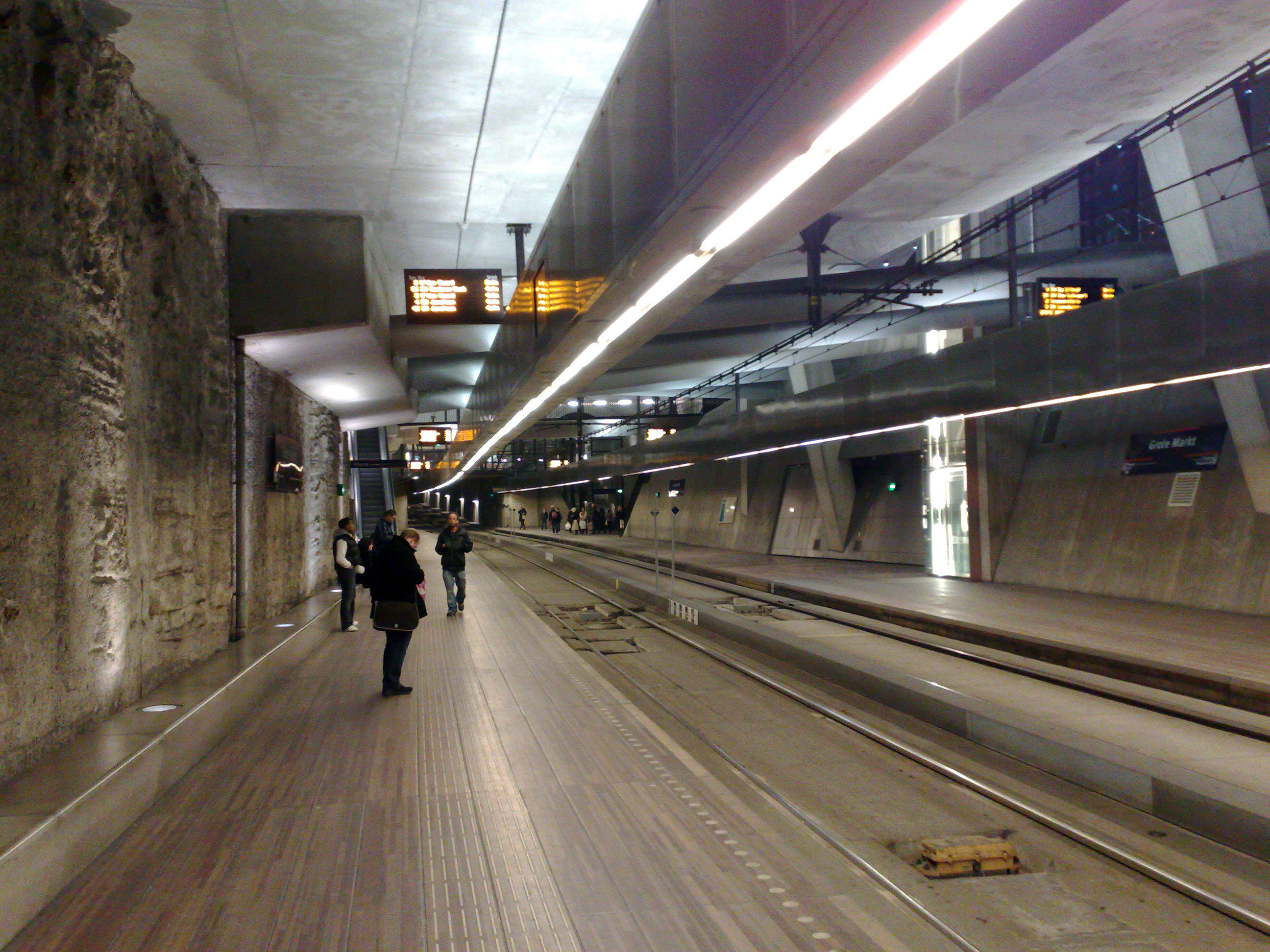 Underground tram station "Grote Markt" in The Hague, the Netherlands.